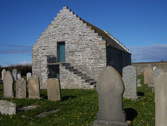 St Boniface Kirk, Papa Westray. There has been a kirk on this site since the 8th century when it was an important Pictish ecclesiastical centre, possibly used as a base for missionary activity in Shetland. The island's common name, Papay, derives from the Viking term for an island of priests. The oldest masonry in the current kirk dates from the 12th century, but it was substantially rebuilt around 1700 to make it suitable for presbyterian worship. The outside steps and door lead to the wooden gallery which was installed to provide additional seating. This building became redundant when the Church of Scotland and Free Church congregations were reunited in 1929, but was restored in 1993.